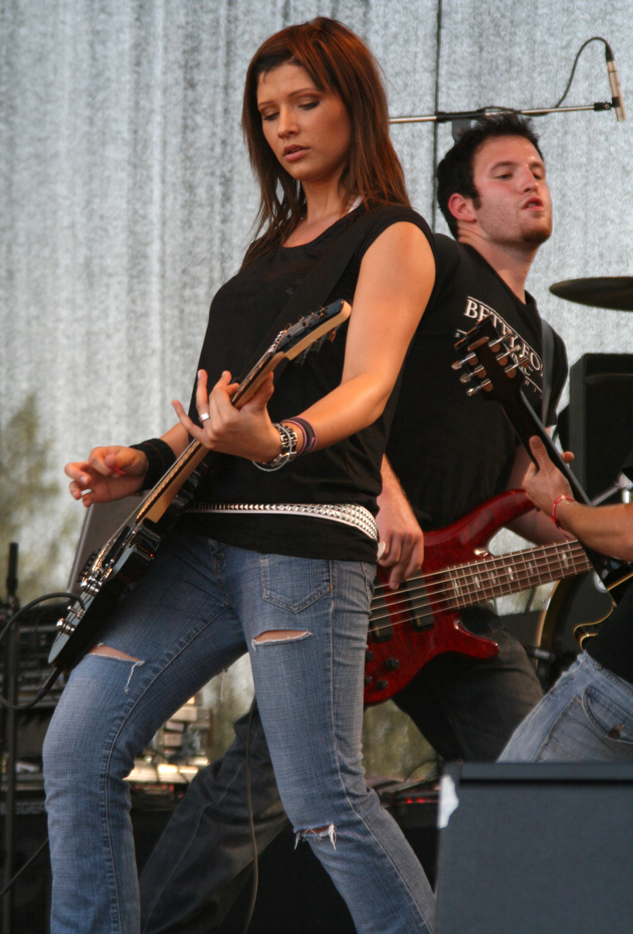 Chrissi Klug of the Austrian band Luttenberger*Klug at the Donauinselfest 2007